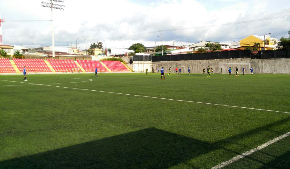 Estadio Ernesto Rohrmoser. It's located in Pavas, San José.